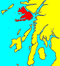 Drawn by me